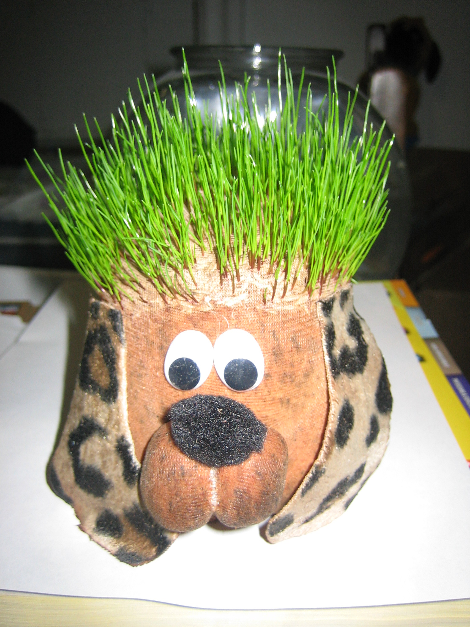 After the tragic and premature death of Fernando Seymour (the goldfish), I decided that I should try my luck with something slightly more difficult to kill. My chia dog is doing quite well so far